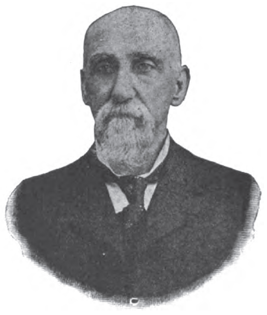 an Ohio politician named John W. Cassingham